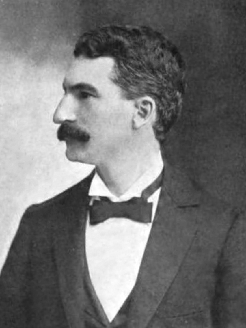 James McClellan Robinson (1861-05-31 - 1942-01-16), U.S. Representative from Indiana (1997-1905).